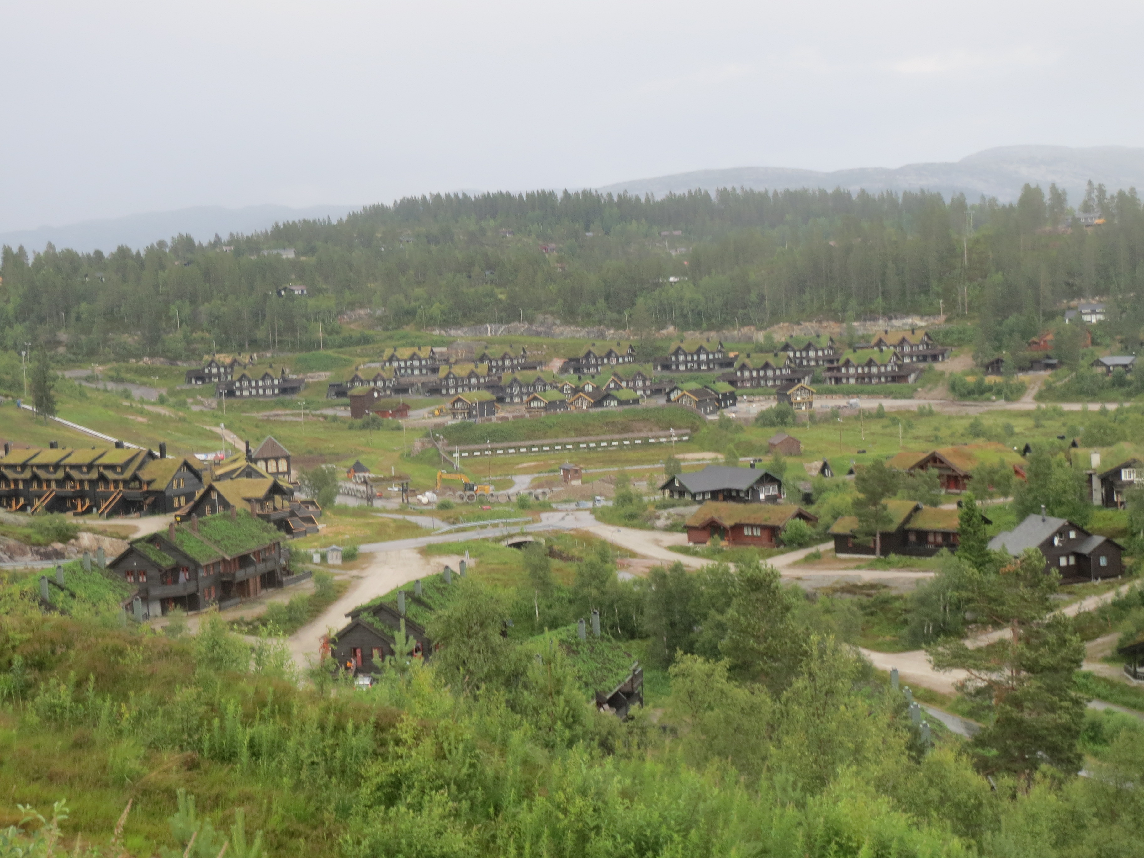 Cottages and lodging with peat on the roof. Bortelid - Åseral, Norway